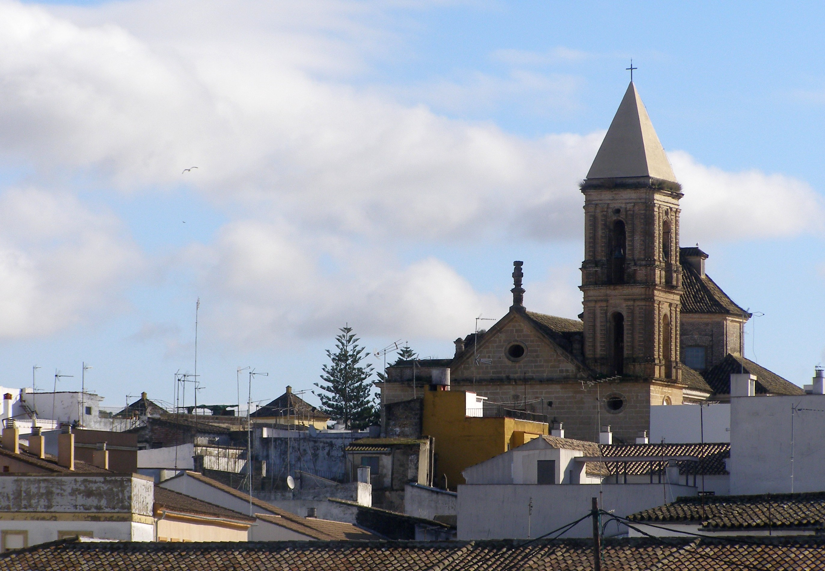 Church Tower of Carmen over the old town